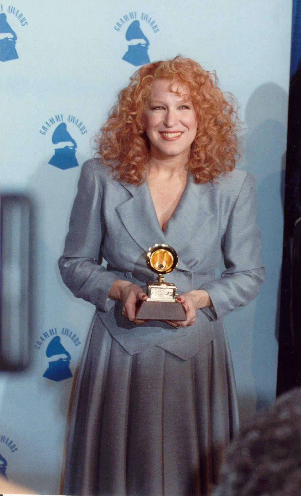 Photo of Bette Midler backstage at the Grammy Awards.